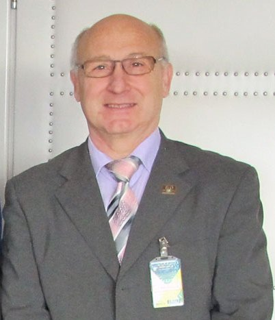 Bogdan Gabrovec (1953-)